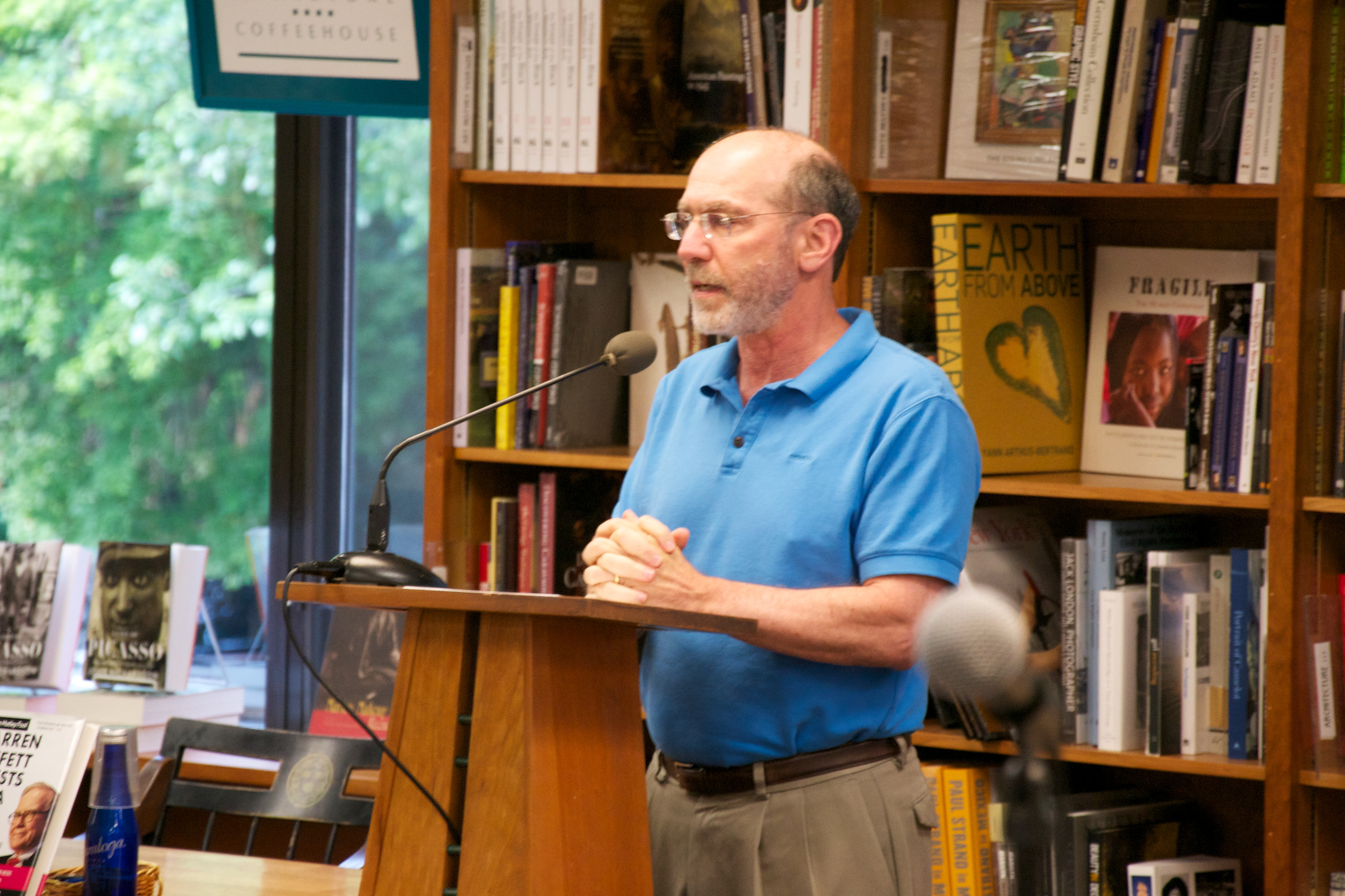 Photograph of new co-owner Bradley Graham of Politics and Prose introducing an author.